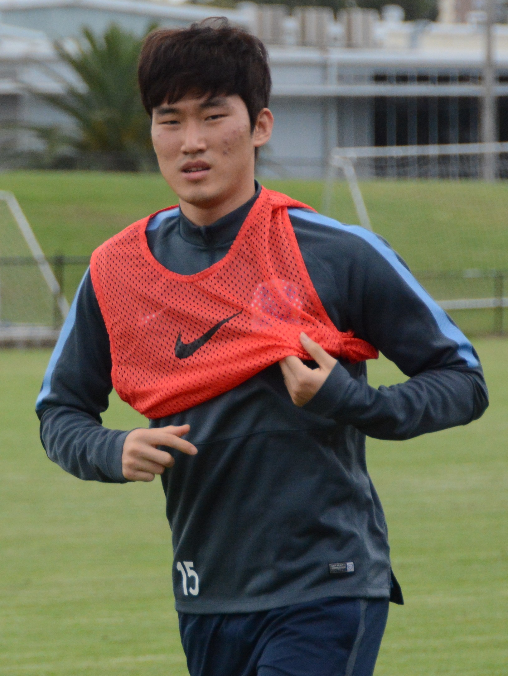 South Korean international Jang Hyun-Soo during his warm up. Photos from the Guangzhou R&F Training Session ahead of their Asian Champions League Qualifying match against Central Coast Mariners. For more info, check out